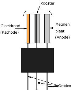 Diagram of Vacuum-Tube Triode